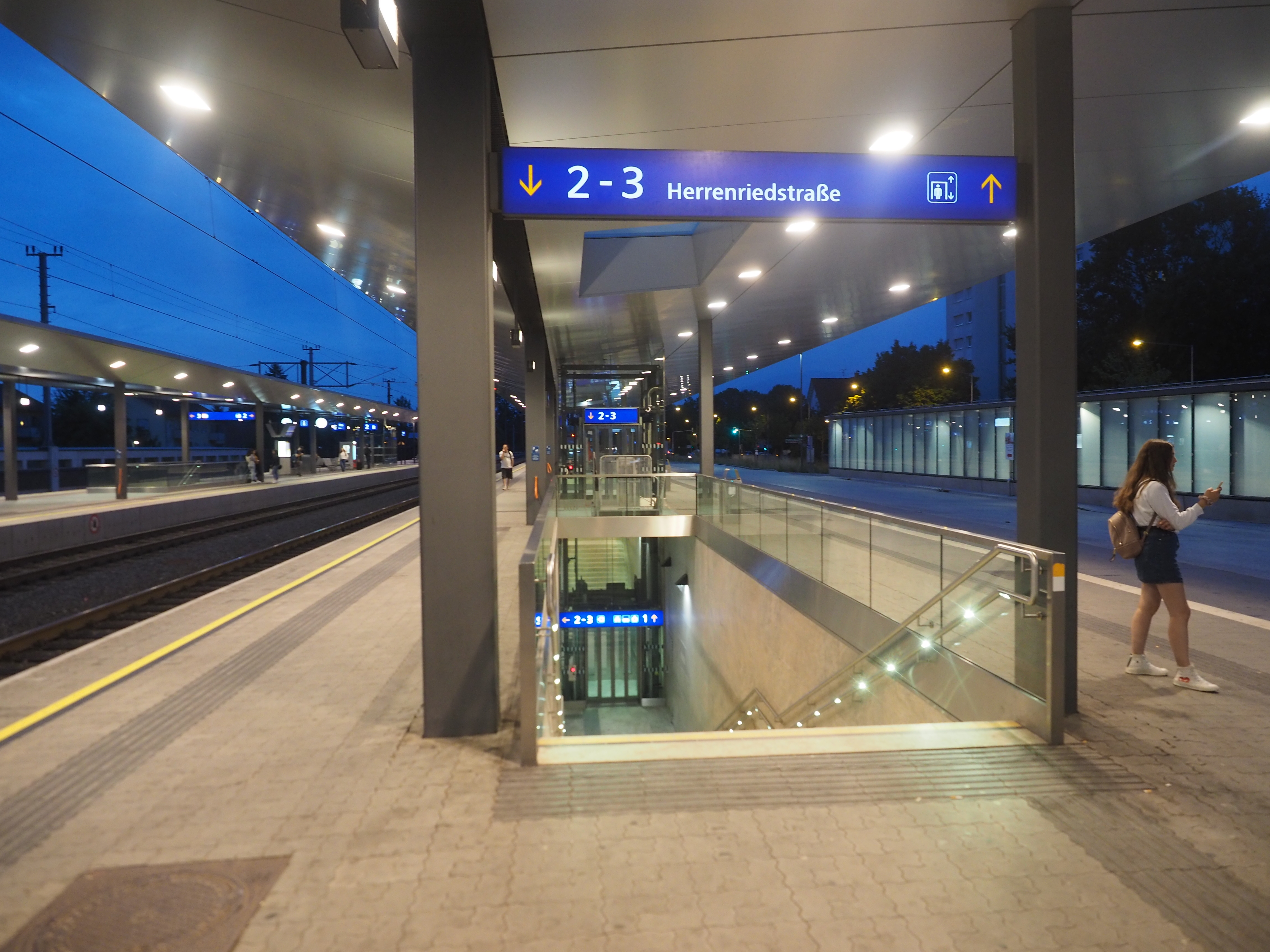 The railway station in Hohenems, Vorarlberg, Austria at about 08:40 PM (local time).